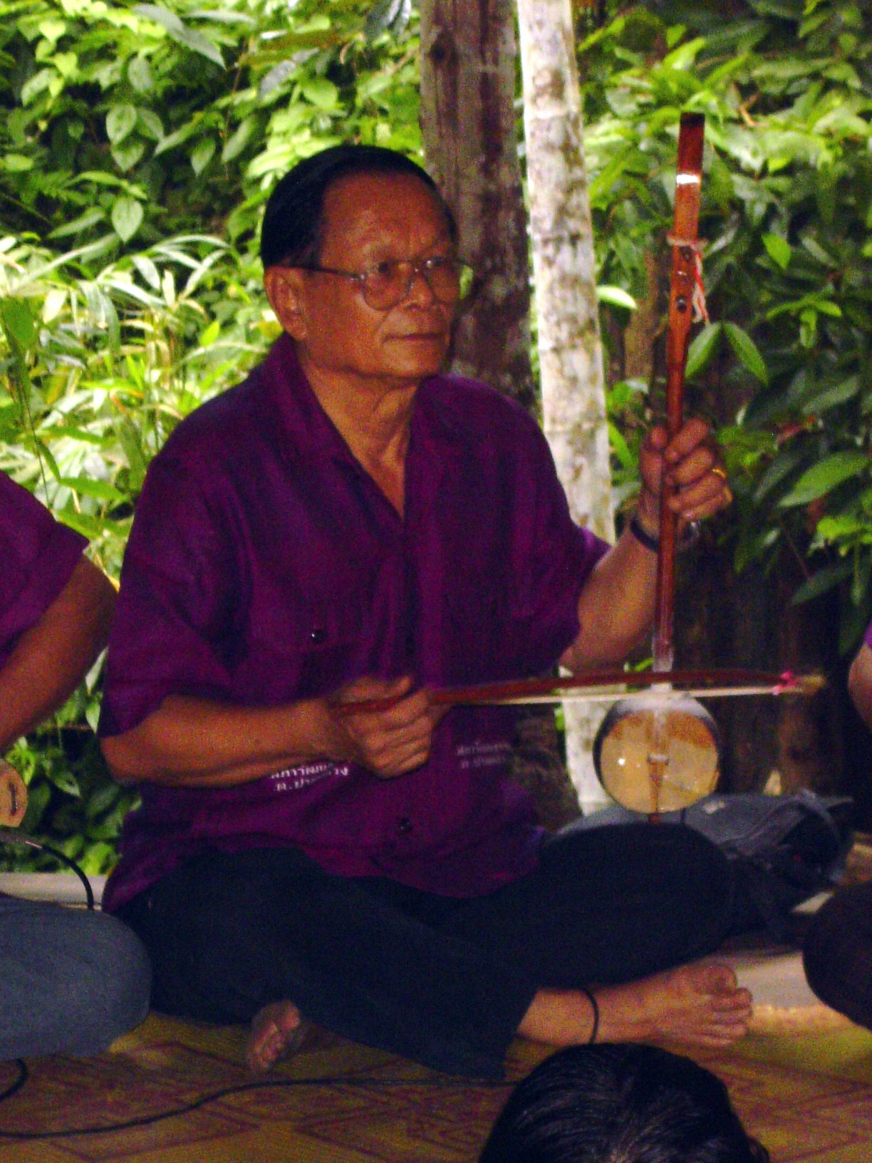 Traditional Laplae folk music. at Wat Kungtapao Local Museum, Ban Khung Taphao, Khung Taphao subdistrict, Mueang Uttaradit, Uttaradit Province, Thailand.) on December 2, 2012.